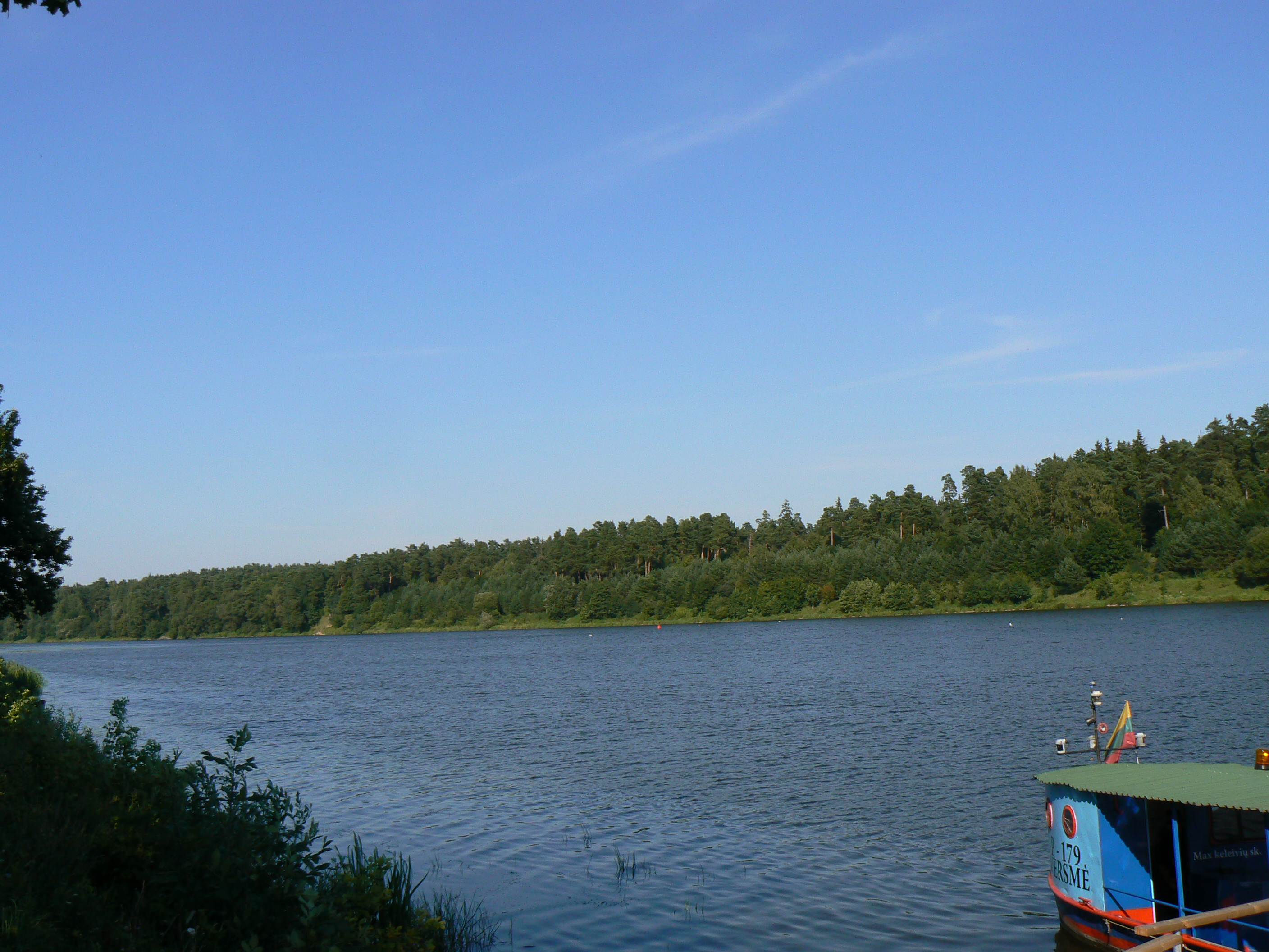 Ferry in Birštonas